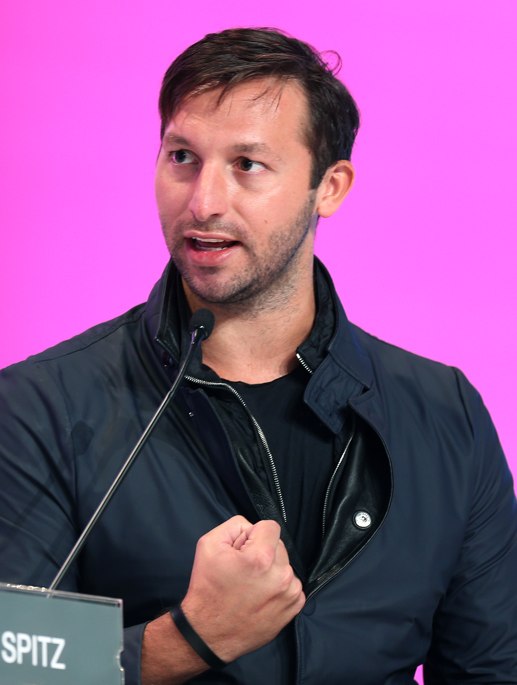 Australian swimmer Ian Thorpe speaks during the Doha Goals Forum in Qatar. Picture by Vinod Divakaran